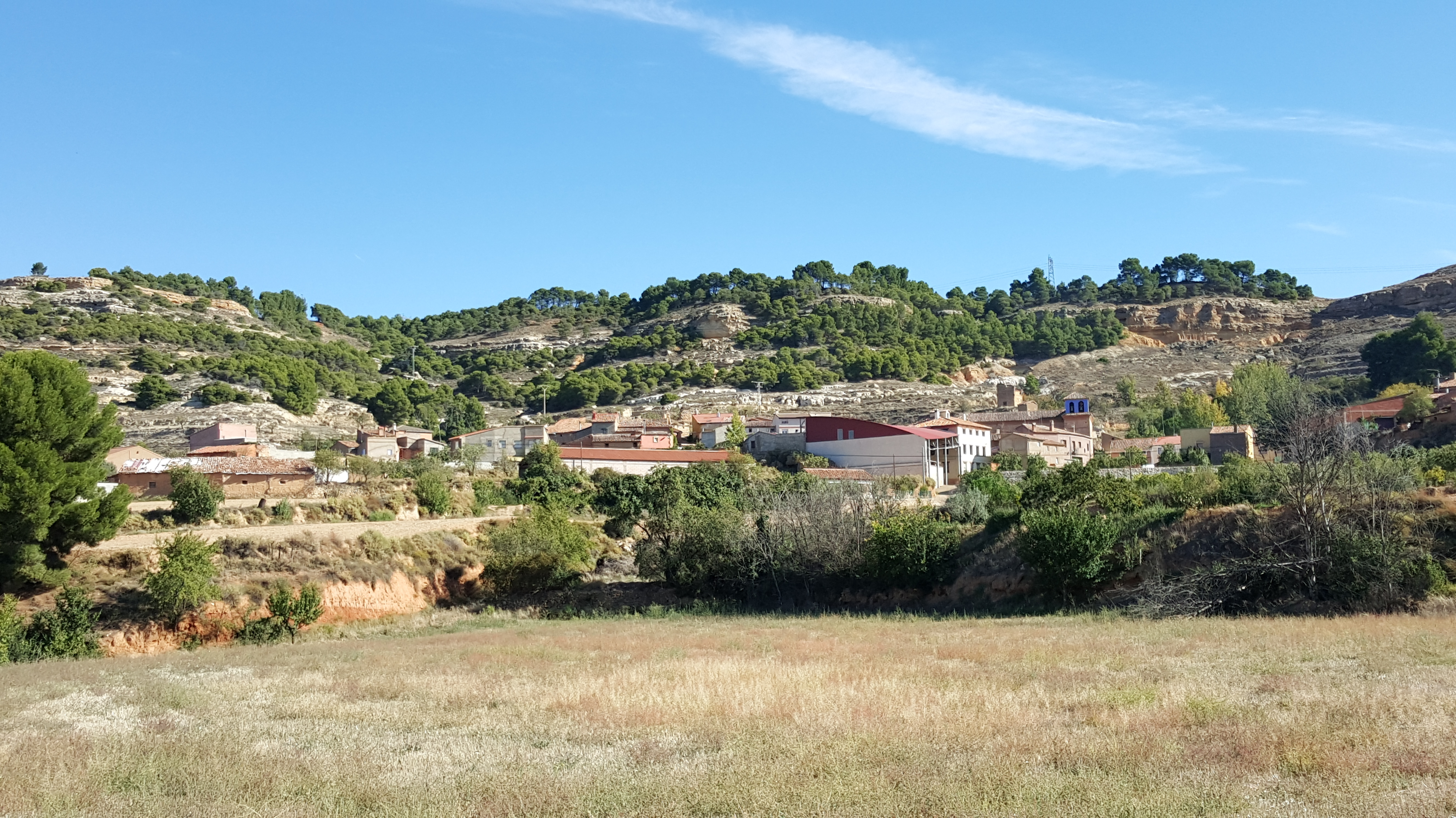 Nombrevilla, Zaragoza, Spain